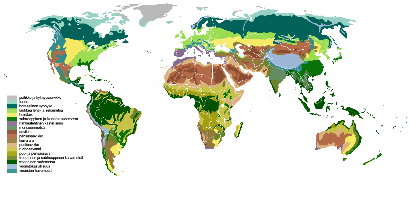 The main biomes in the world. Drawn by hand using maps. Legend in Finnish.